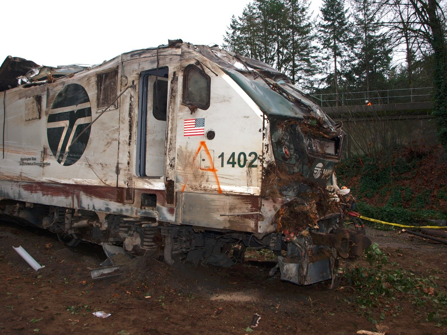 This Siemens Charger passenger locomotive (SC44) is a 4,400 horsepower diesel-electric alternating current (AC) locomotive manufactured by Siemens Mobility in Sacramento, California. WDTX 1402 (1) was released from the Siemens Mobility factory on March 30, 2017.WDTX 1402 (1) underwent final acceptance by Amtrak, WSDOT, and Siemens for use as a lead locomotive in revenue service on November 17, 2017. WDTX 1402 (1) was first used in revenue service on December 10, 2017, and operated on five revenue trains until the incident.